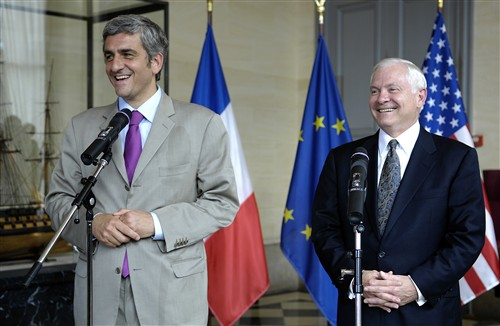 Hervé Morin and Robert Gates on 5 june 2007.